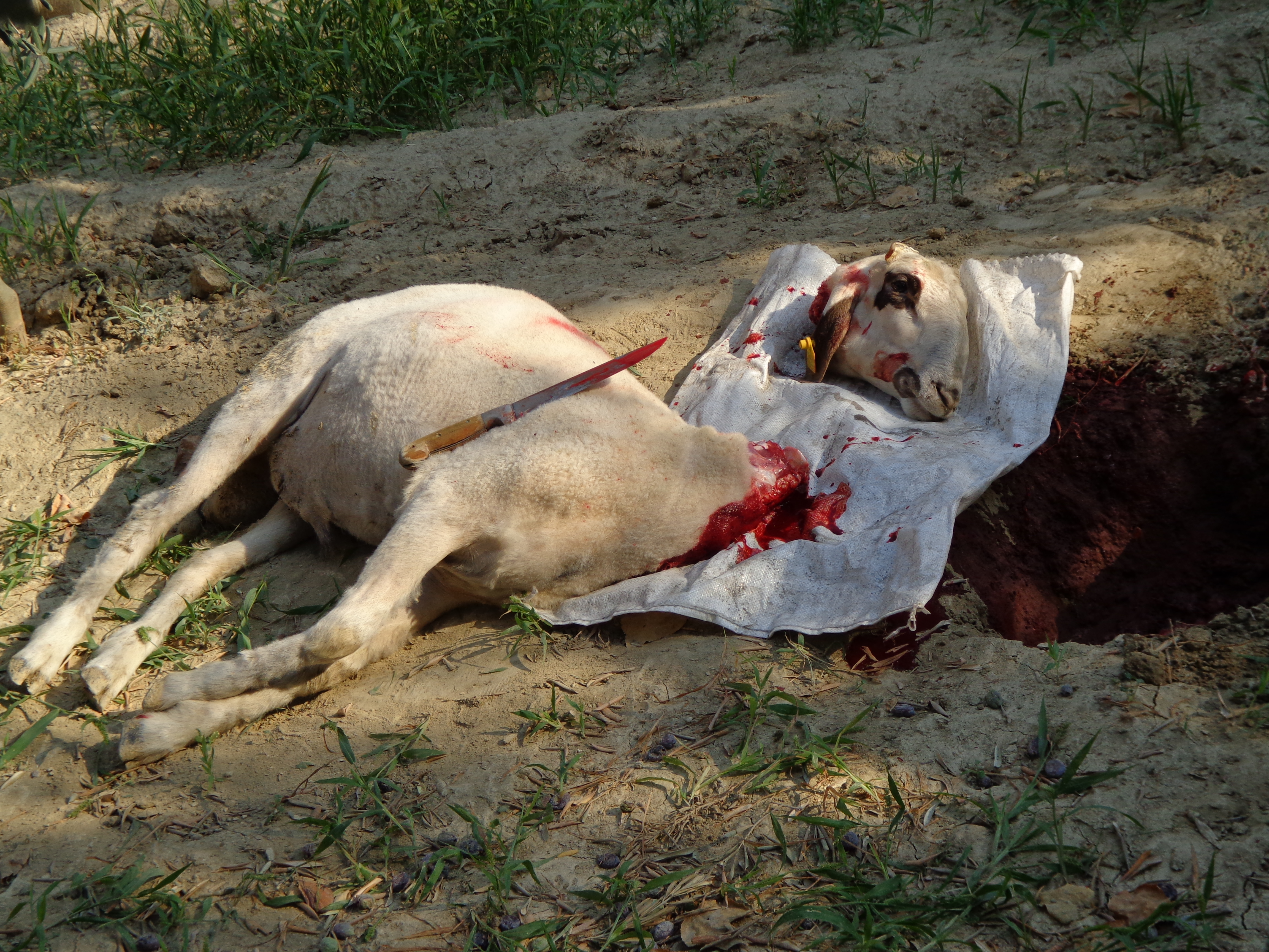 Qurban